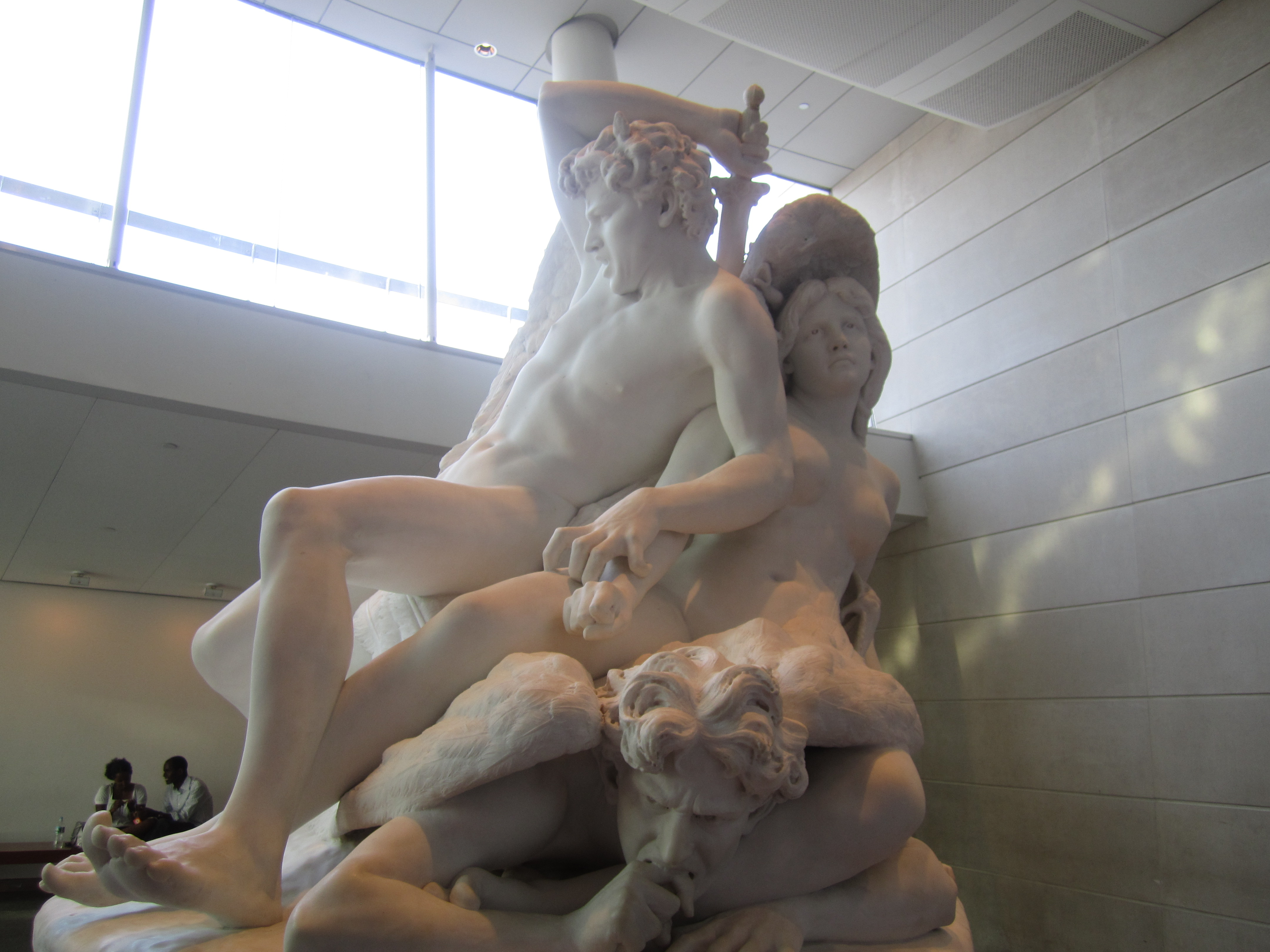 The Fallen Angels by Salvatore Albano — an 1893 Italian sculpture in the Brooklyn Museum. Credits I took photo with Canon camera of Albano's "The Fallen Angels" sculpture .